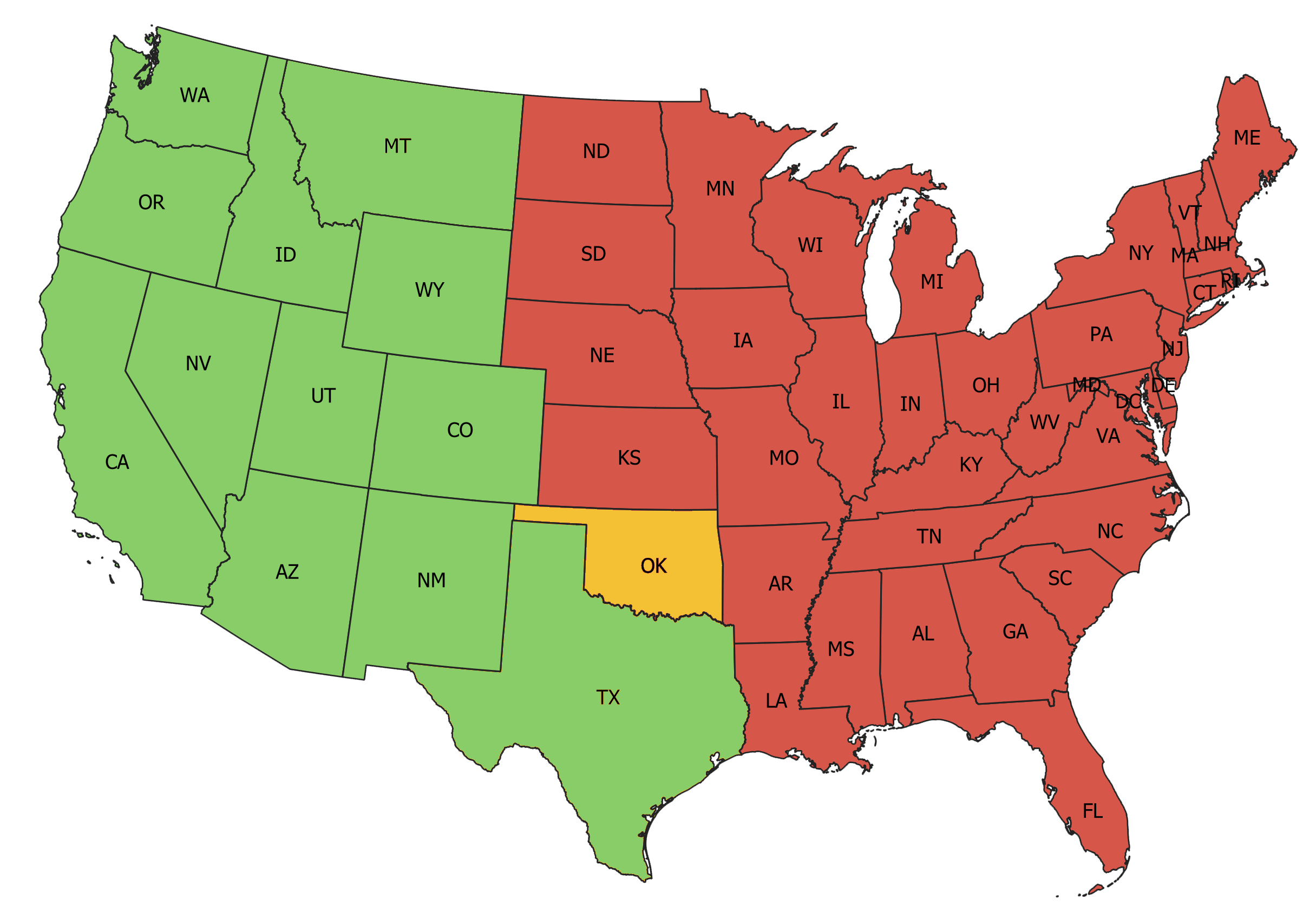 As of 6th March 2020, ATS version 1.36.1.41s: available US States are marked green, states under development are marked orange and red are states which aren't yet announced. Created with QGIS 3.8.3-Zanzibar. CRS: North America Albers Equal Area Conic (EPSG: 102008)